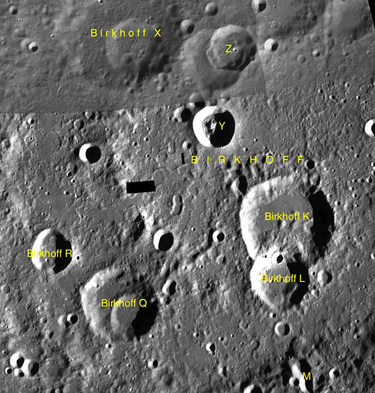 Part of the chart LAC-19 used for the presentation